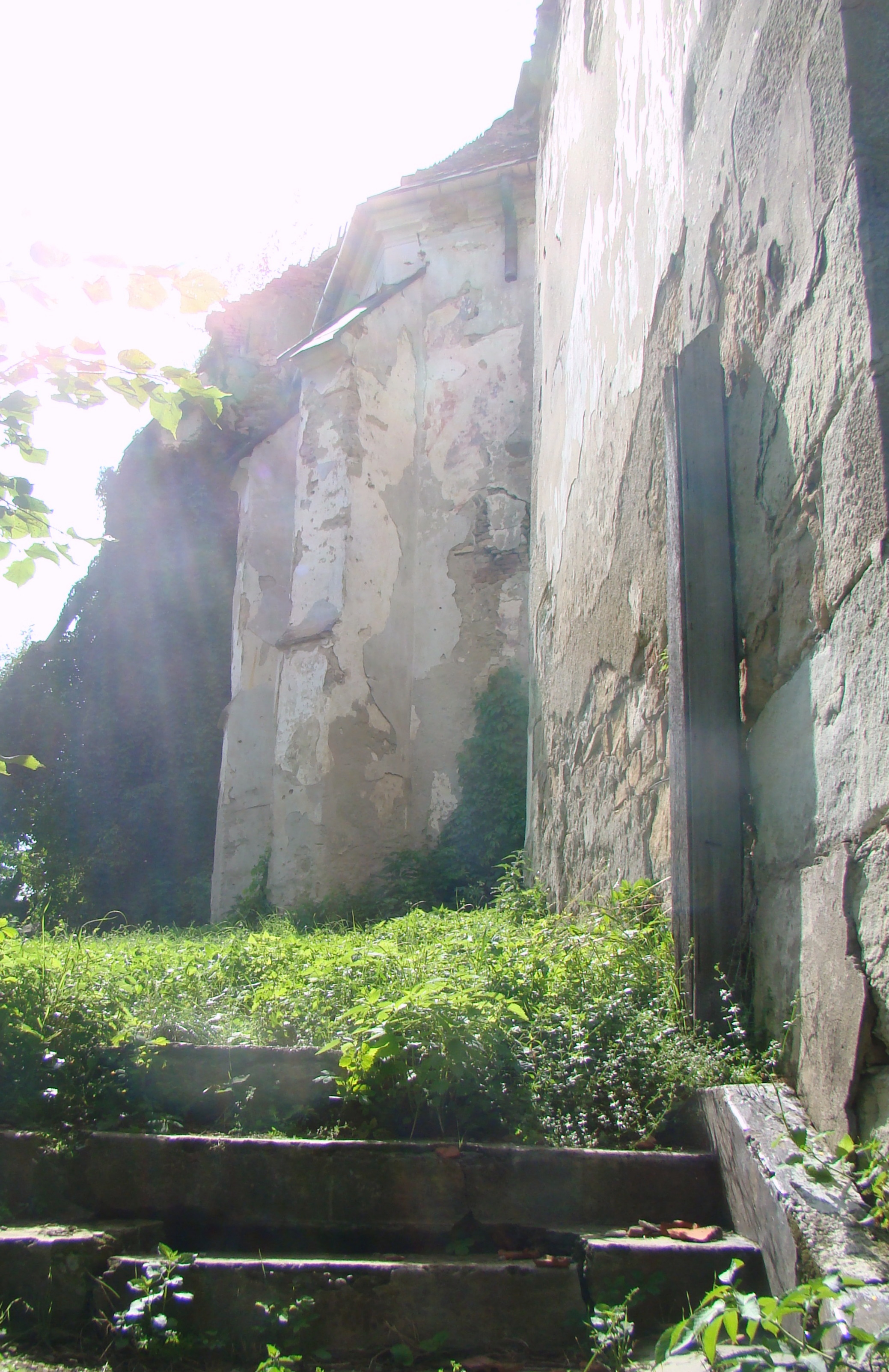 Lutheran church in Vermeș, Bistrița-Năsăud county, Romania